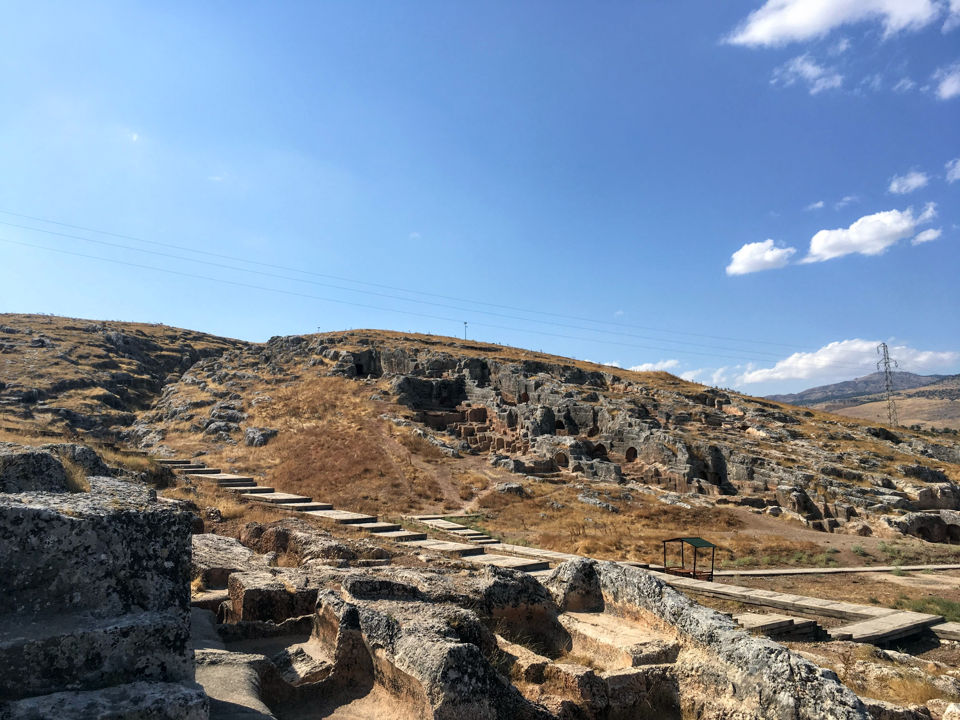 Perre Ancient City, located in east of city center of Adıyaman, which is open-air museum today.